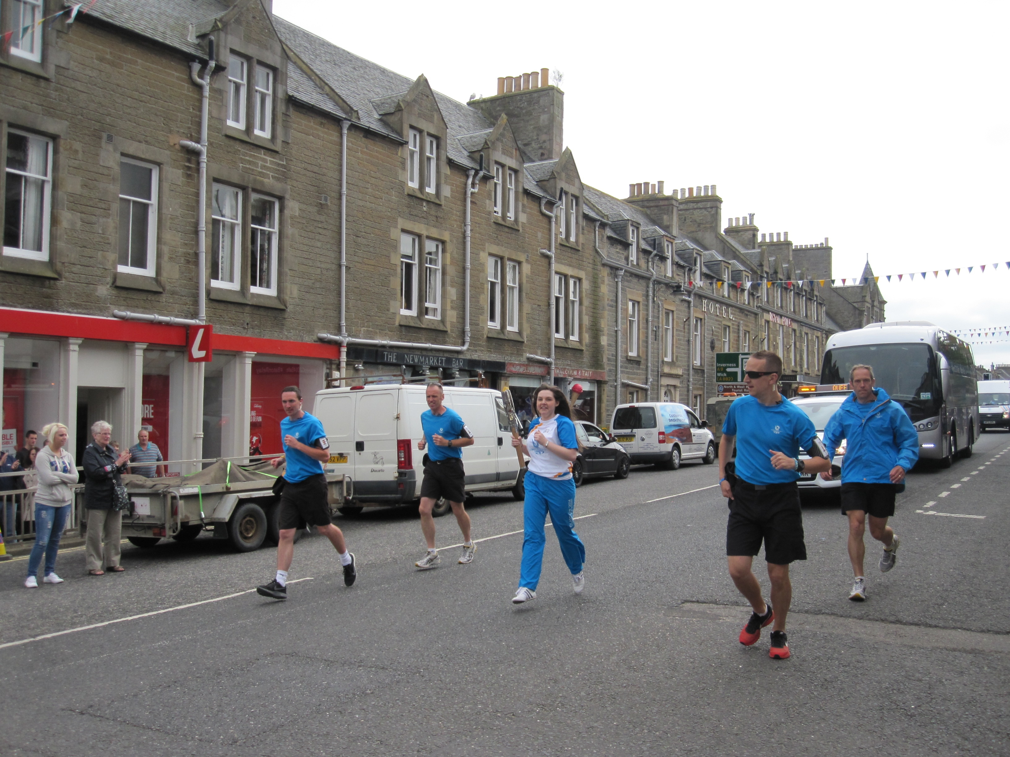 The Queen's Baton Relay in Traill Street in Thurso